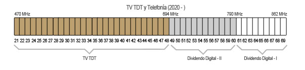 Dividendo Digital 2020